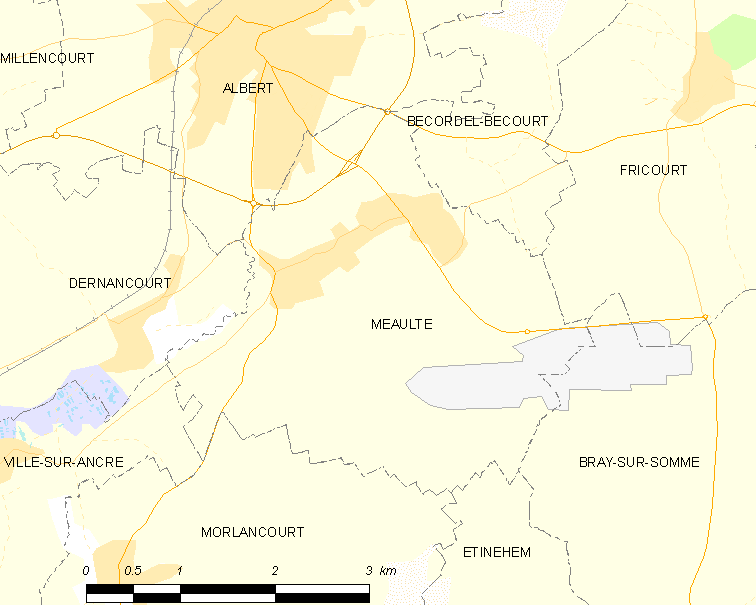 Map of French municipality Méaulte